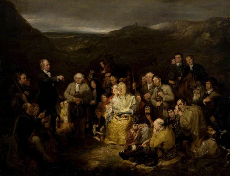 Oil on panel, 82.6 x 106.7 cm Collection: Glasgow Museums